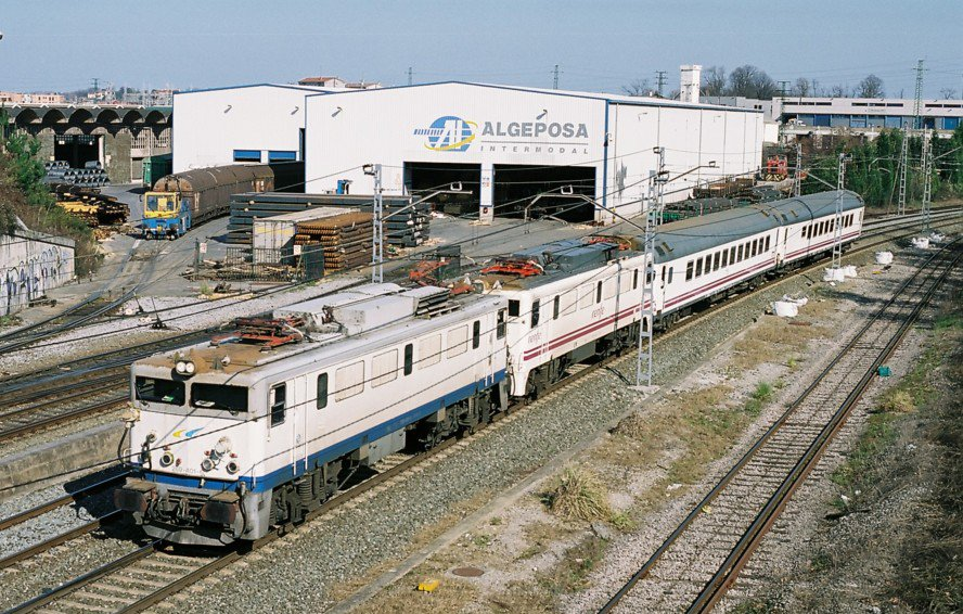 Locomotives Renfe 269-401 and 269-406 heading the Diurno 402 Irun - Salamanca in 2008.